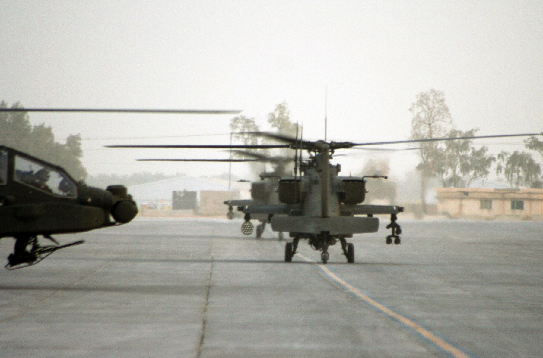 AH-64D Apache Longbow attack helicopters from Task Force XII prepare to take off from Camp Taji, Iraq on a mission in the Baghdad region (original caption)